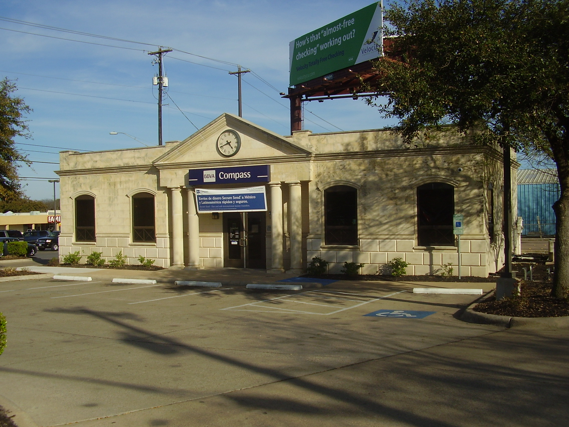 A branch of BBVA Compass, BBVA Compass South Congress - 2401 South Congress Avenue AUSTIN, TX 78704 Una sucursal de, BBVA Compass, BBVA Compass South Congress - 2401 South Congress Avenue AUSTIN, TX 78704